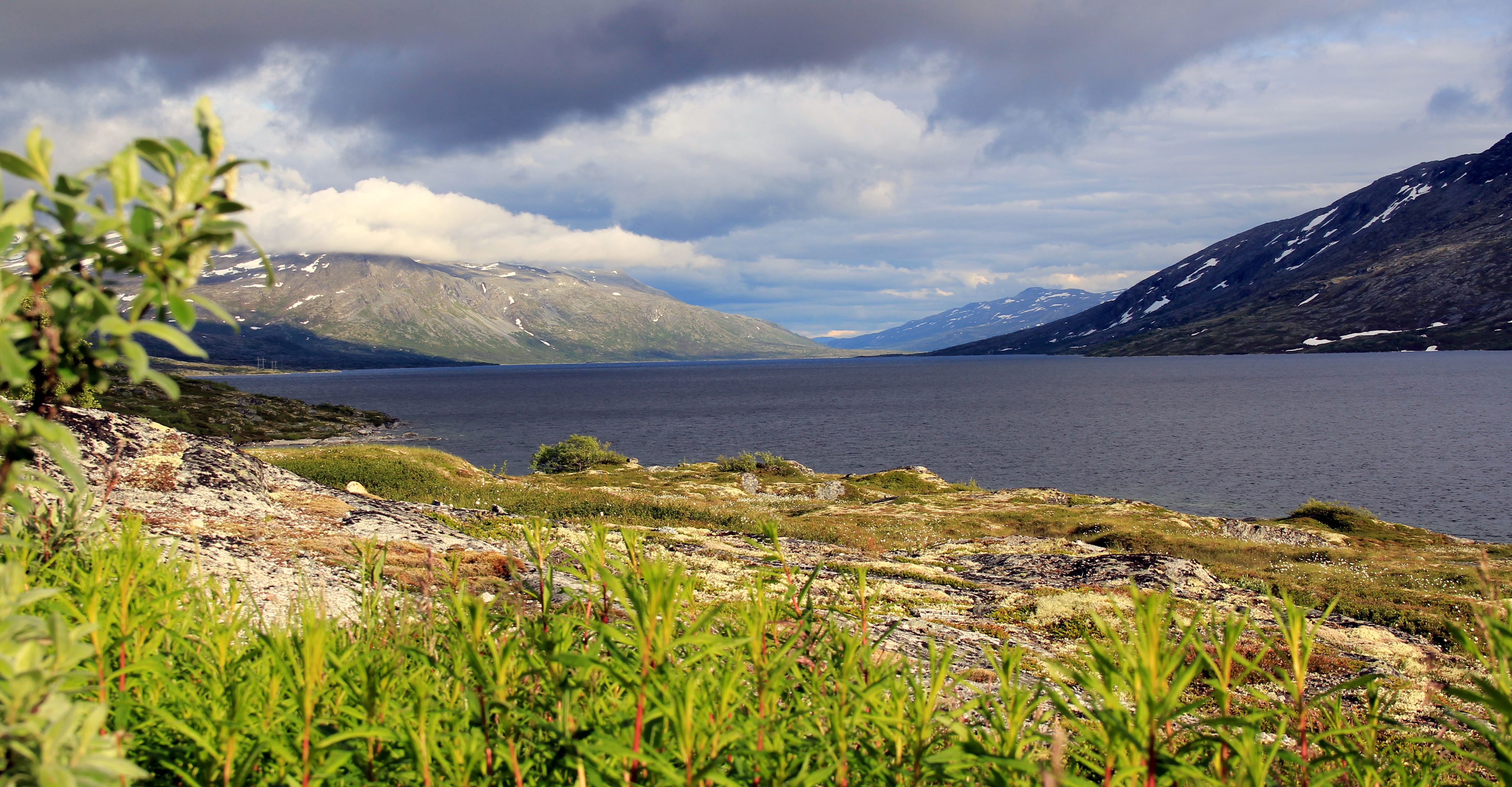 Aursjødammen, artificial lake at Nesset, Norway